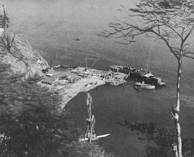 The PT-boat jetty at Tufi, Papua New Guinea in 1944 during World War 2. Tufi was the first PT advance base in New Guinea. From At Close Quarters: PT Boats in the United States Navy, published by the US Naval History Division, 1962.